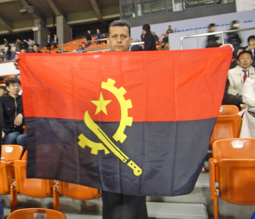 Angola flag at Soccer Match: Japan U-23 vs Angola at Kasumigaoka National Stadium, Tokyo